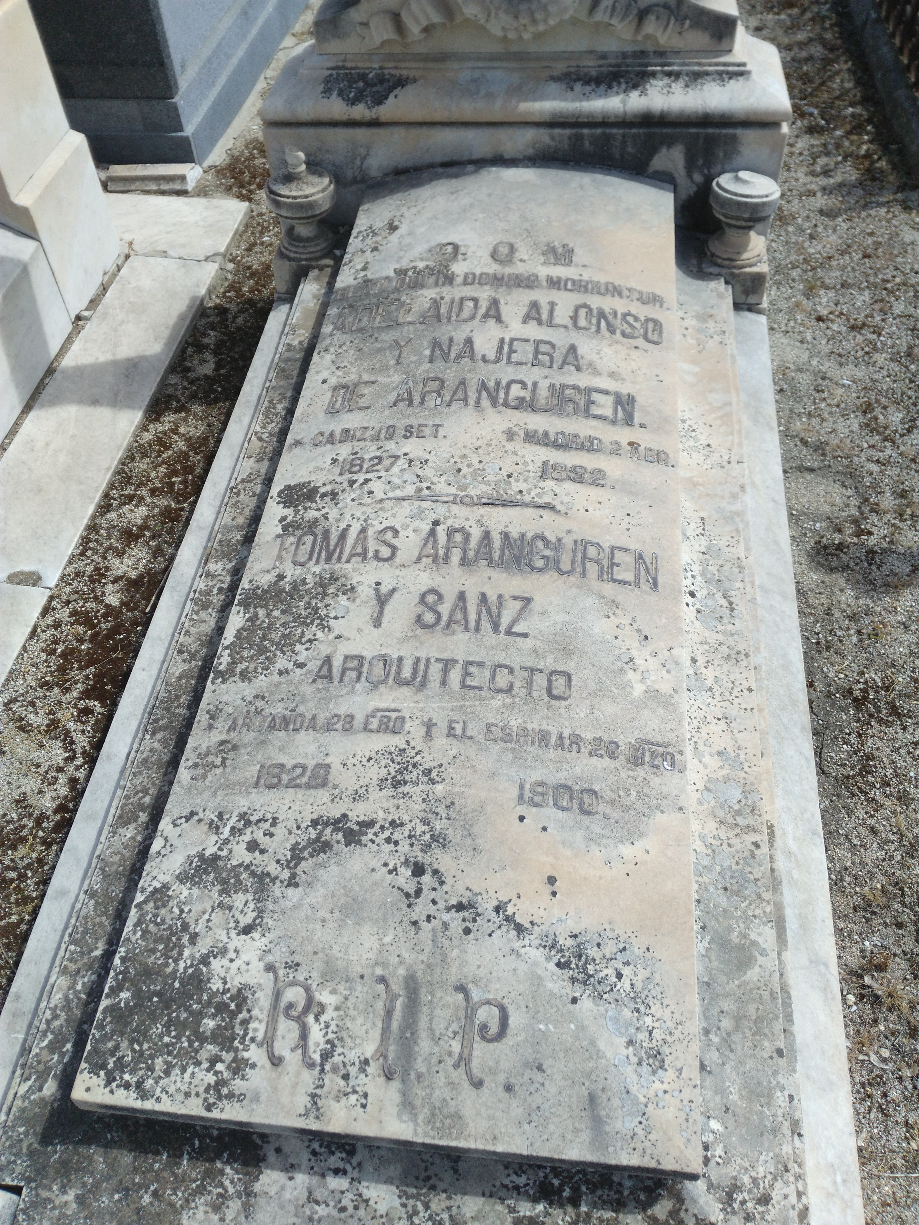 Tomás Aranguren, San Isidro Cemetery, Madrid.